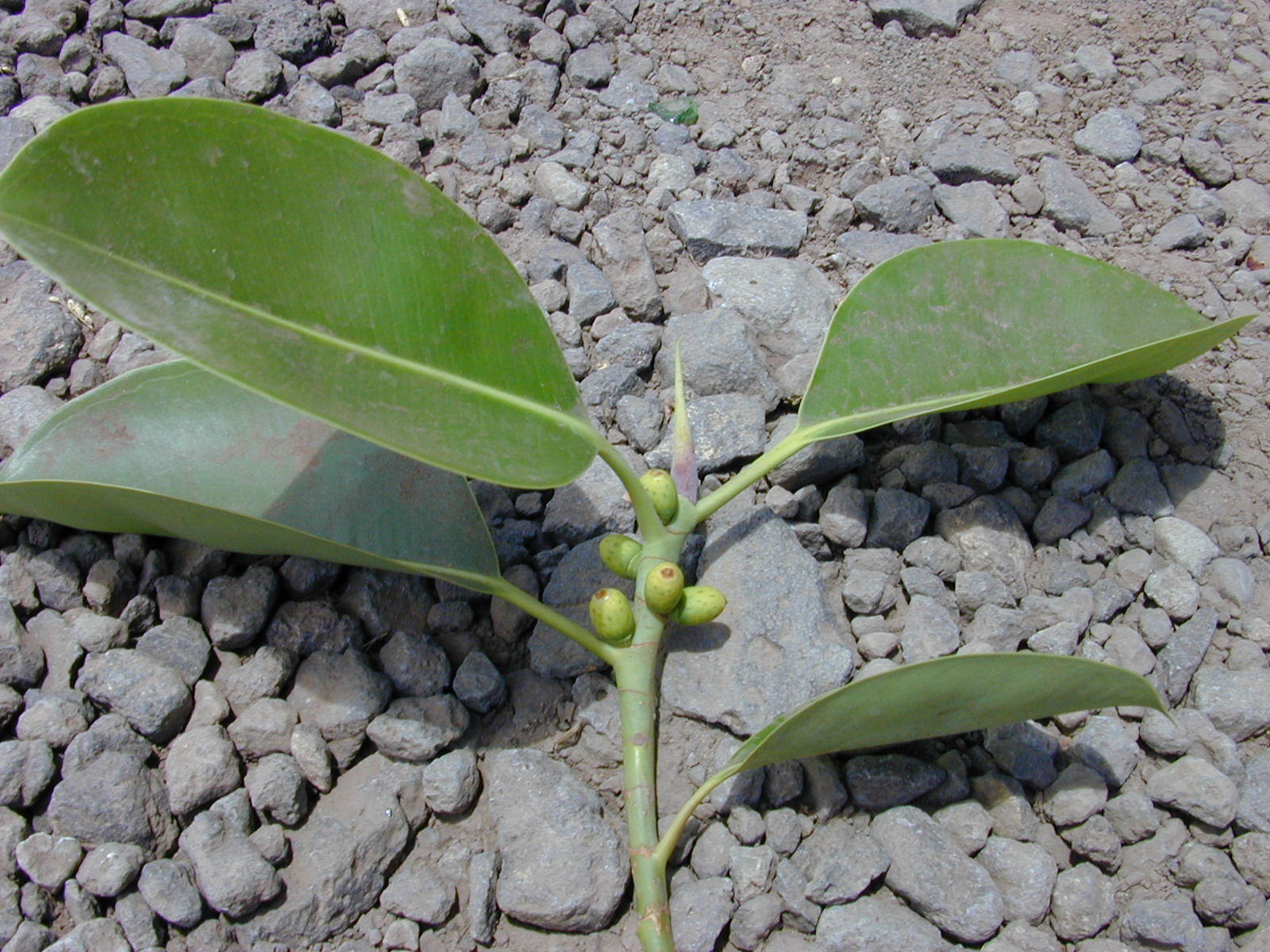 Ficus elastica (leaves & immature fruit). Location: Maui, Kihei